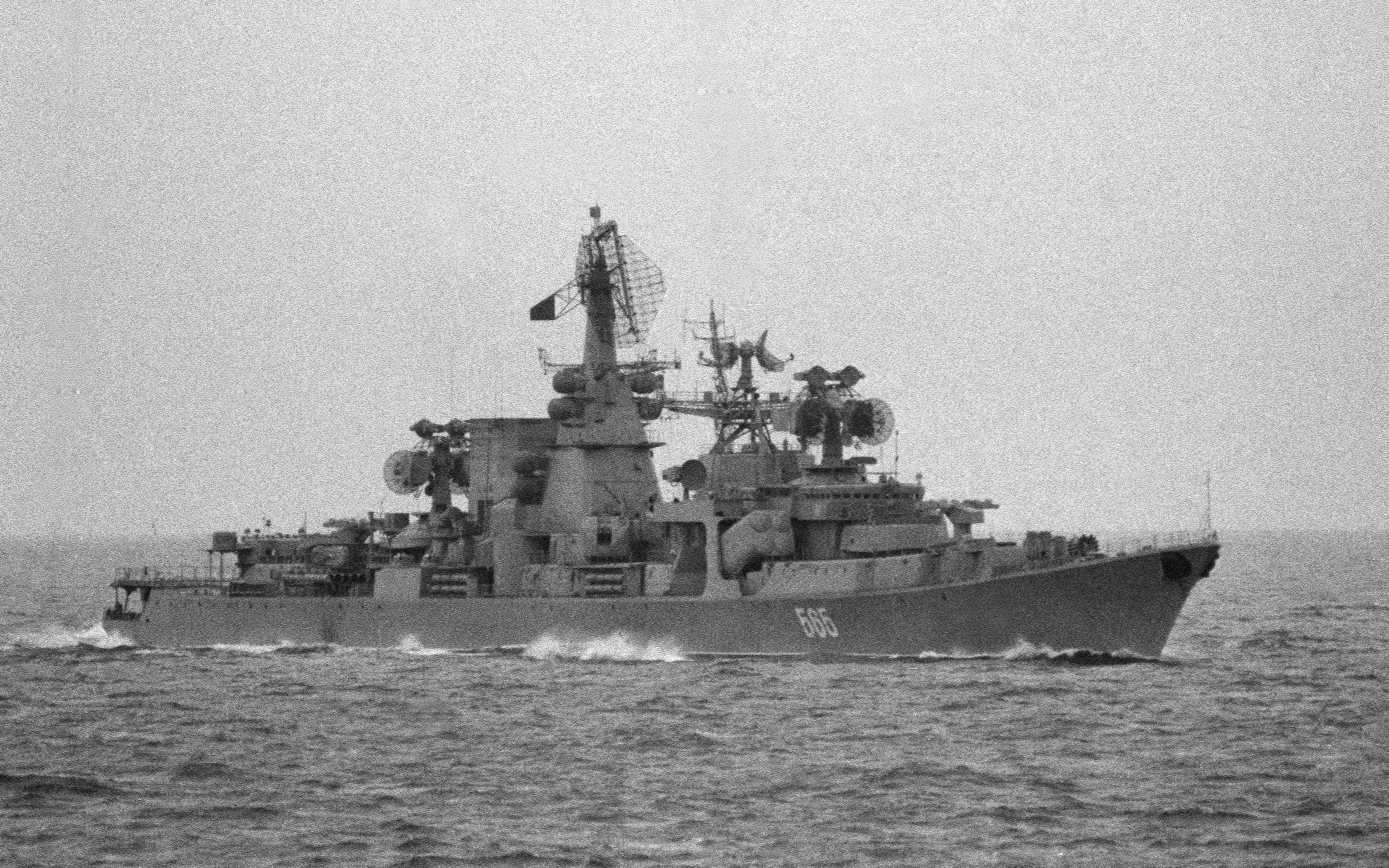 A starboard bow view of a Soviet Kara class guided missile cruiser PETROPAVLOVSK (565) shadowing salvage operations for downed Korean Air Lines Flight 007 (KAL 007). The commercial jet was shot down by Soviet aircraft over Sakhalin Island in the Sea of Japan on August 30, 1983. All 269 passengers and crewmen were killed.